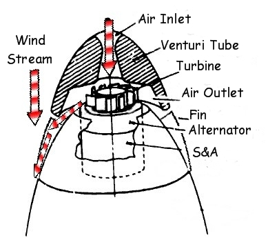 Components used by M734 Fuze to convert wind power to mechanical and electrical power